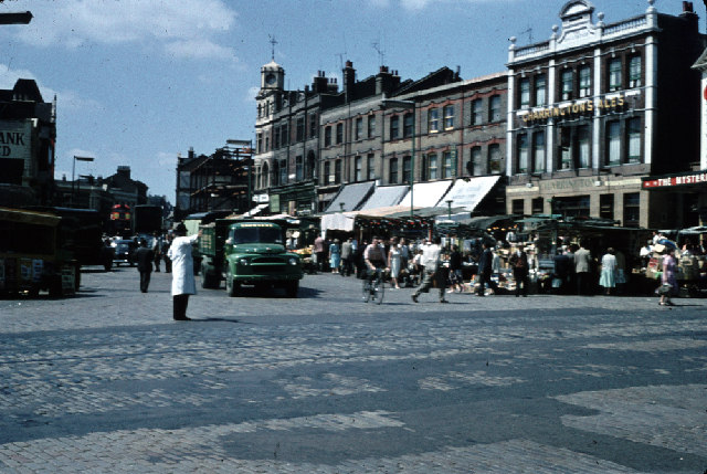 Beresford Square with market stalls on west side, 1959. The old tram lines can clearly be seen in the foreground. Picture scanned from old Agfacolor slide.